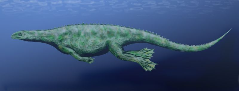 Claudiosaurus germaini, an aquatic reptile from the Upper Permian of Madagascar, pencil drawing, digital coloring